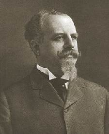 A picture of Adolphus Busch, co founder of Anheuser-Busch